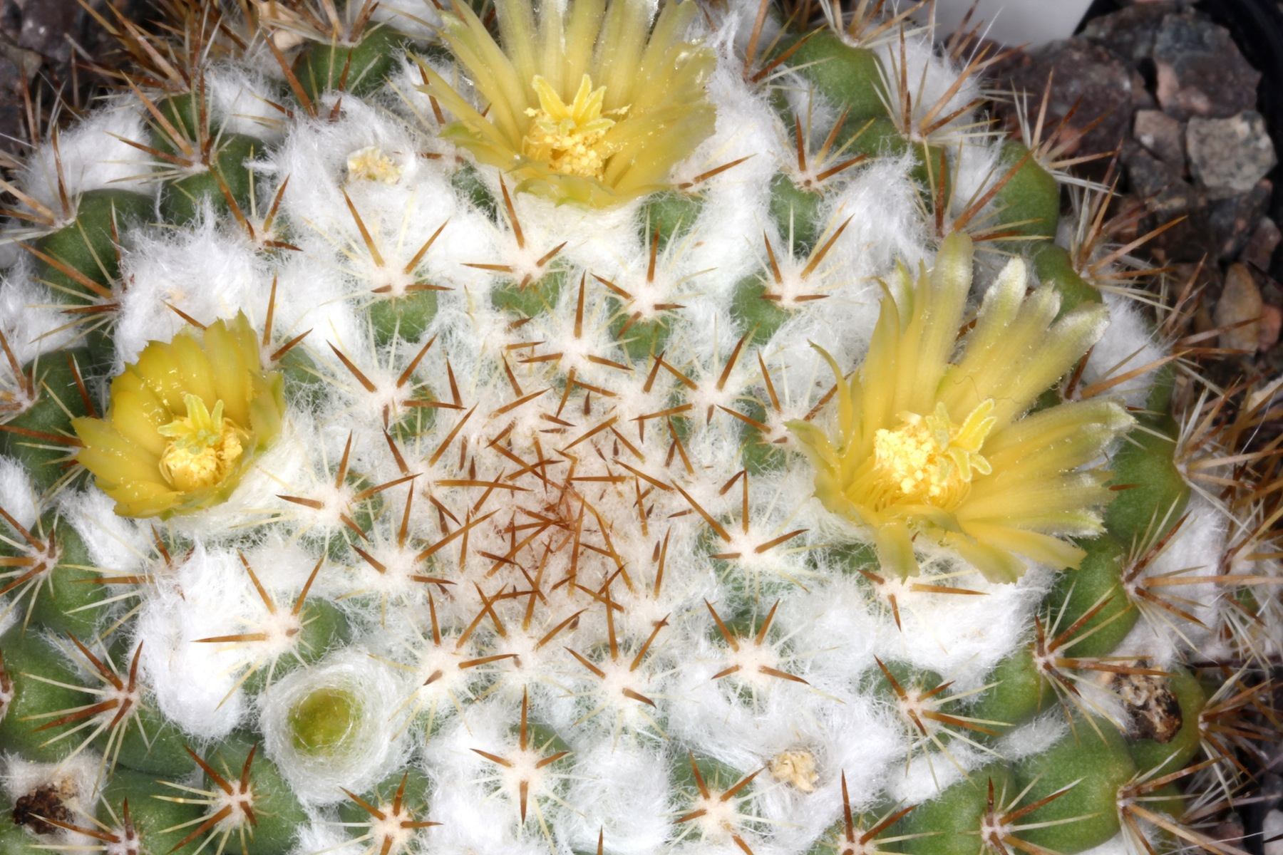 Mammillaria lindsayi